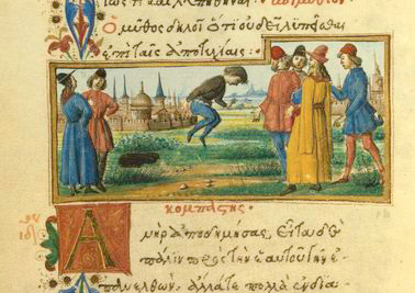 Hic Rhodus, hic salta. An illustration of Aesop's fable of The braggart in the Medici Manuscript dating from the 1480s.